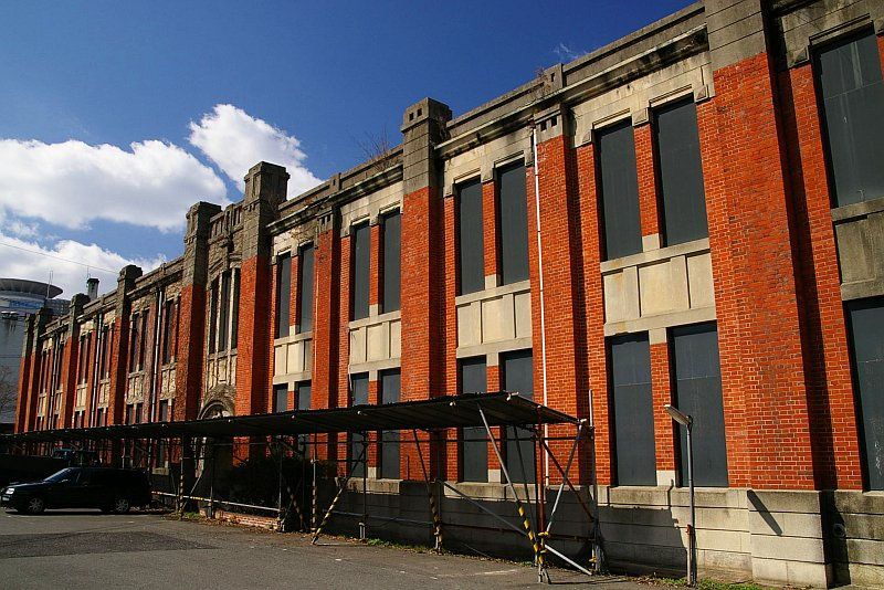 ruin of Chemical Labo, Imperial Arsenal Works Osaka.